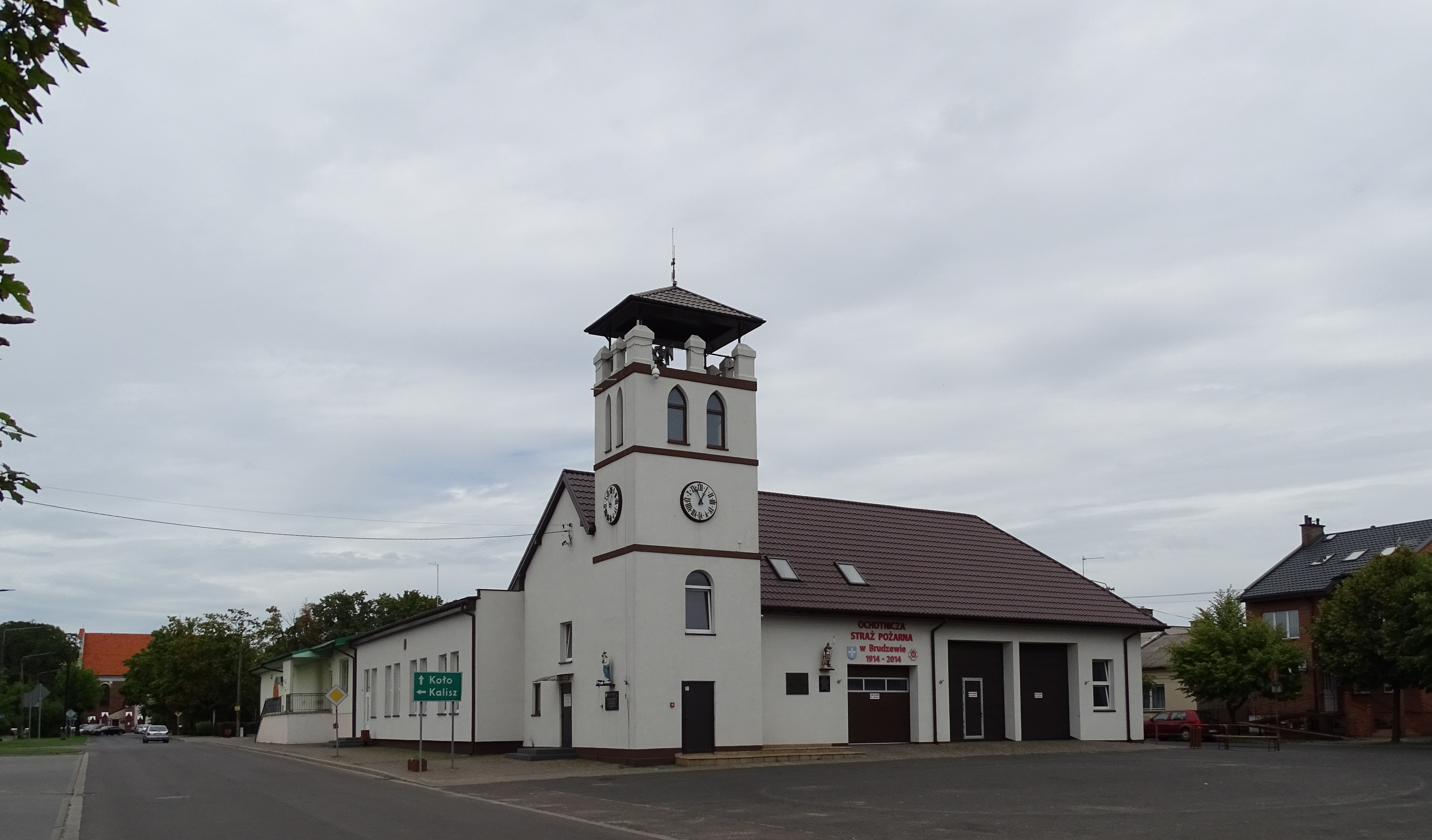 Volunteer Fire Department in Brudzew, Turek county, Greater Poland. Established in 1914.